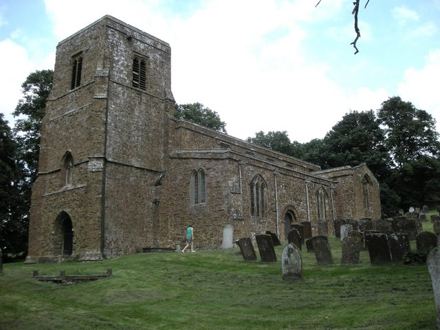 All Saints Church Burton Dassett In a secluded setting.